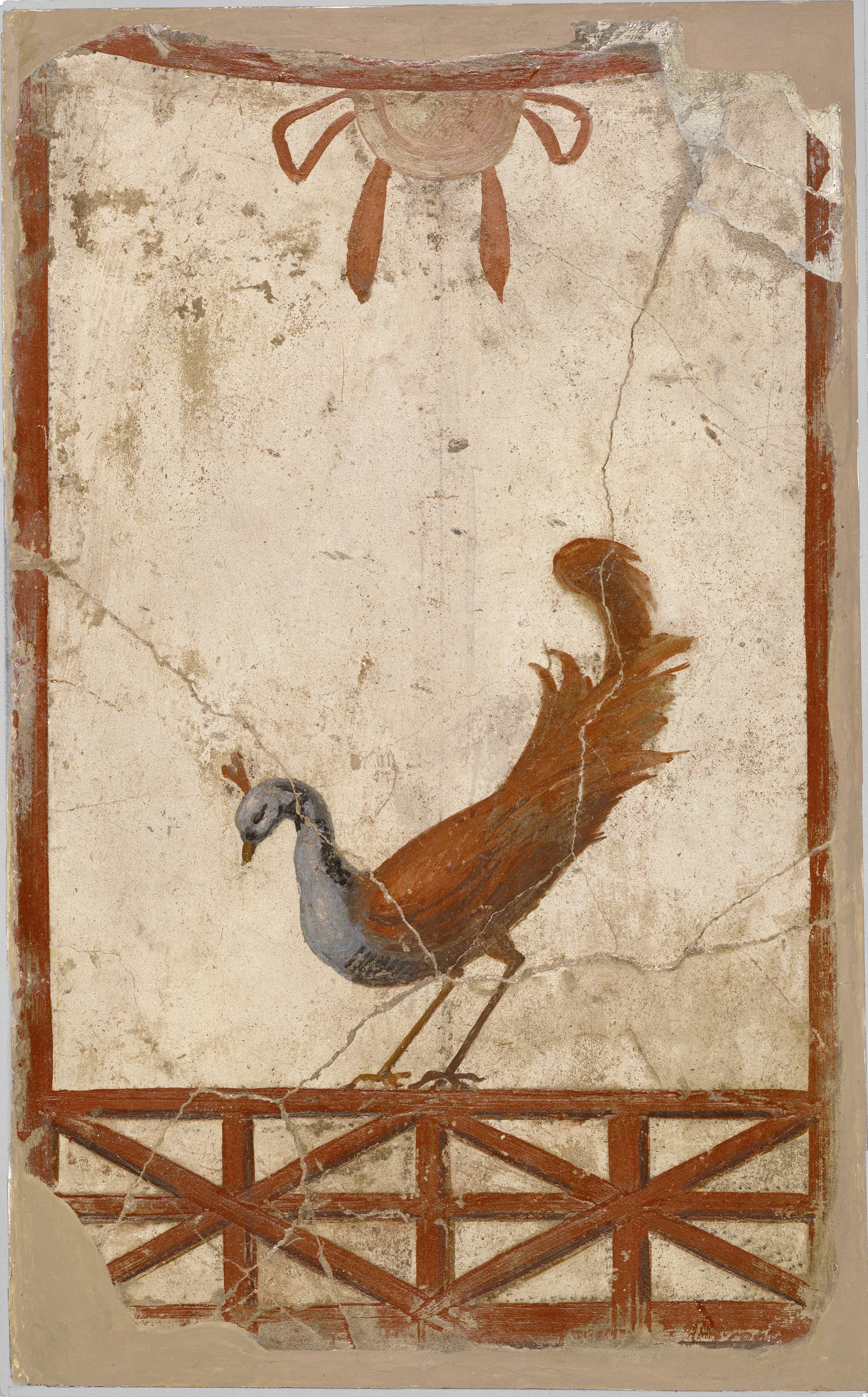 Roman Italy, about 70 AD